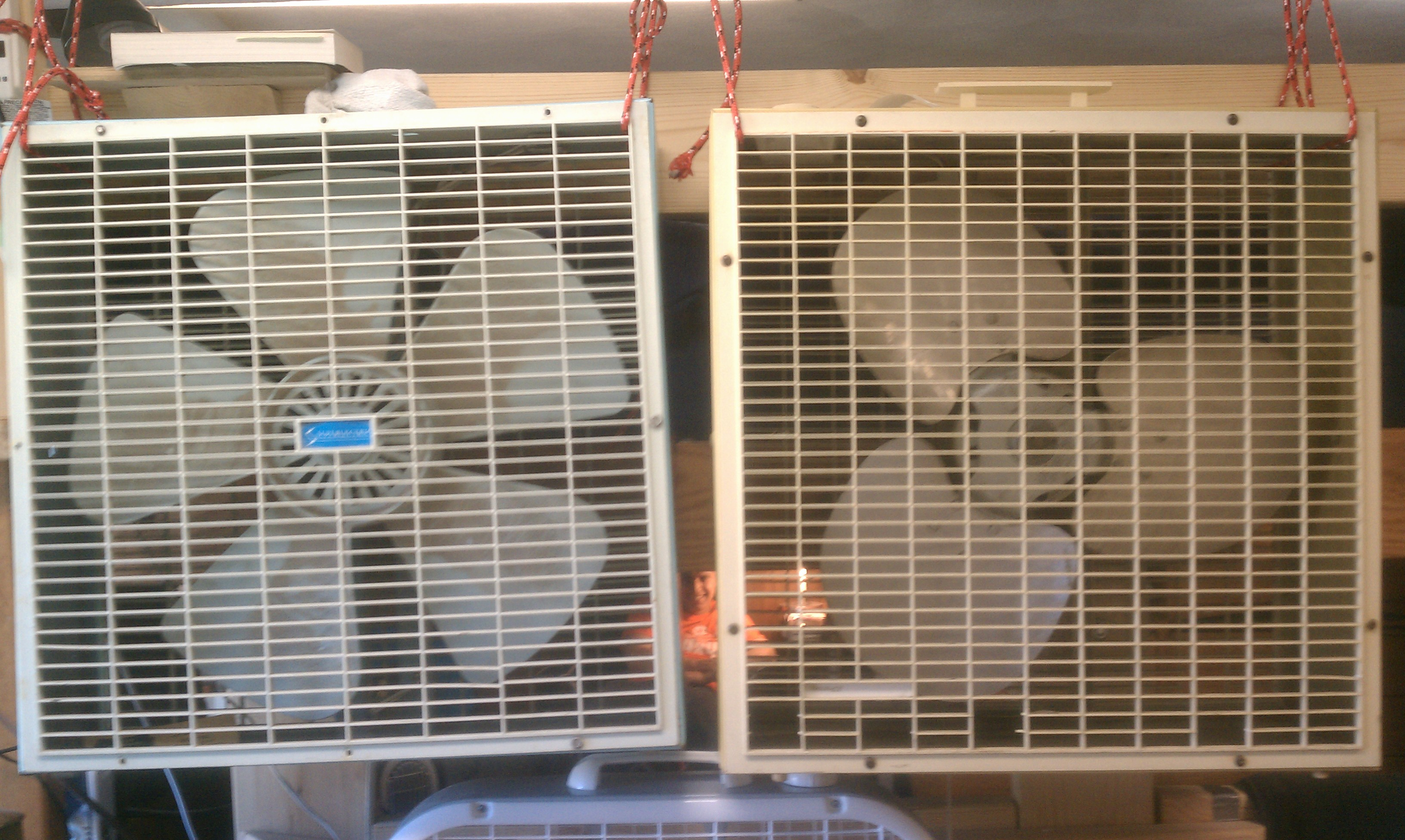 Two box fans of an older design. The fan on the left is a "Superelectric".